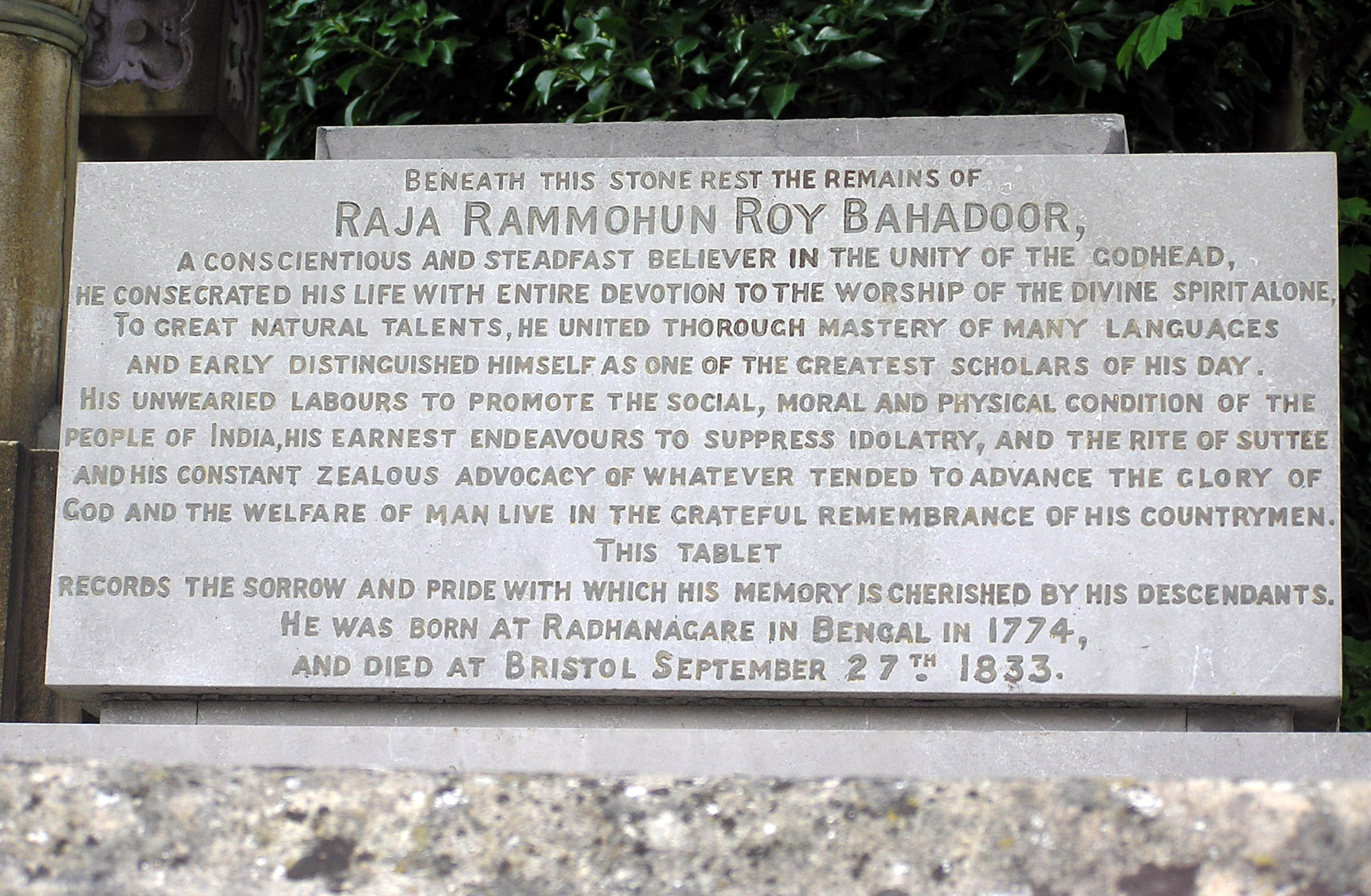 Gravestone of Raja at Arno’s Vale Cemetery in Bristol, England.